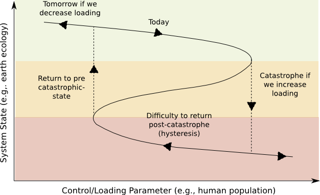 Fold Bifurcation Catastrophe with example being the global ecological state.